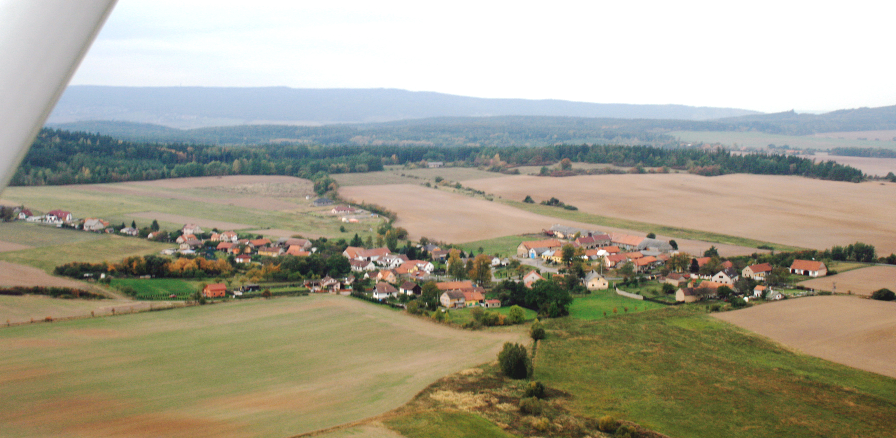 Air photo of village Občov near of town Příbram in central Bohemia, Czech Republic